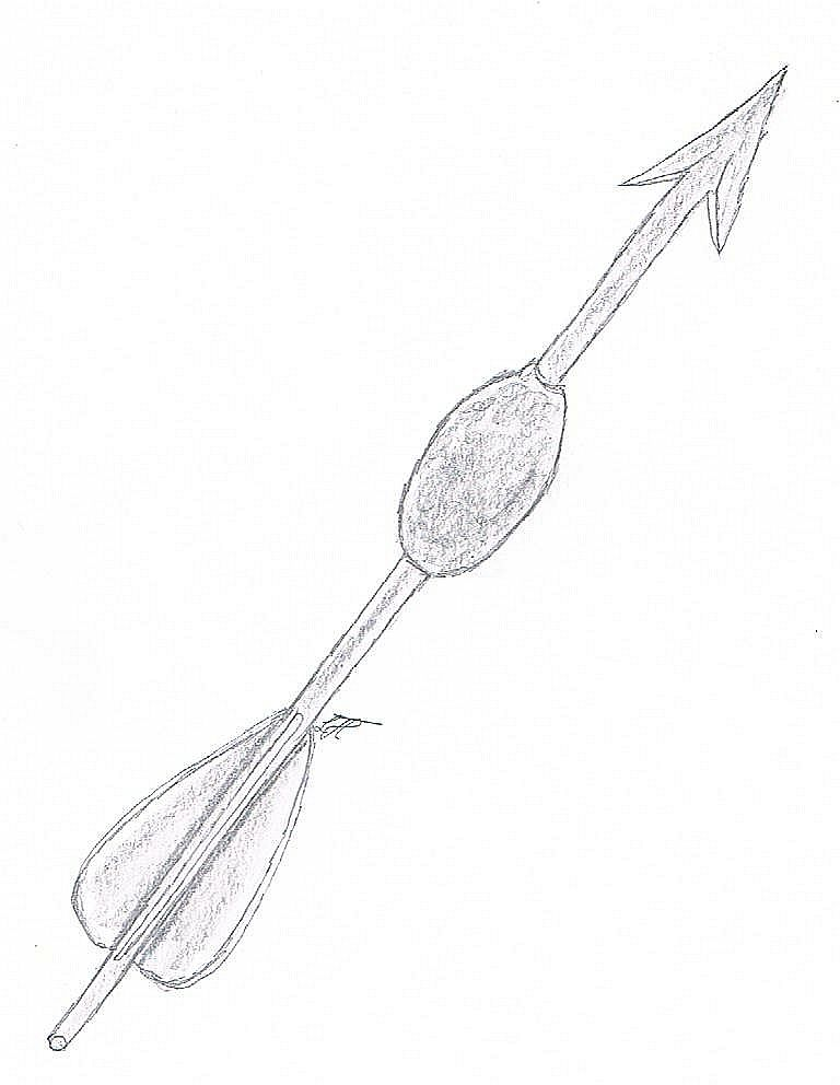 roman Plumbata-spear